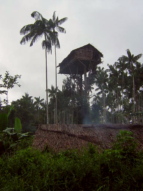 Treehouse of the Korowai tribe in Papua New Guinea.